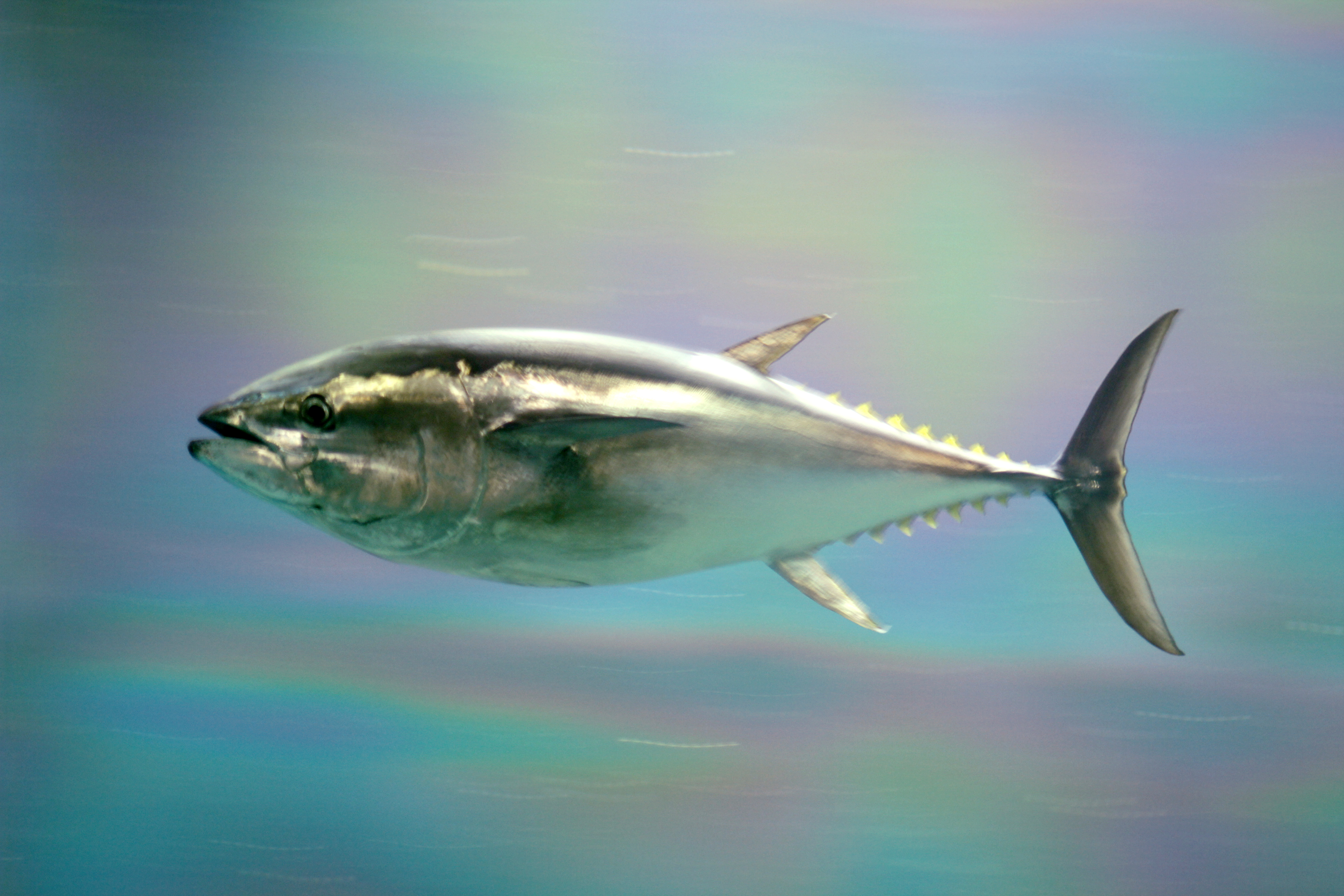 Pacific bluefin tuna at Kasai Rinkai Park, Tokyo, Japan